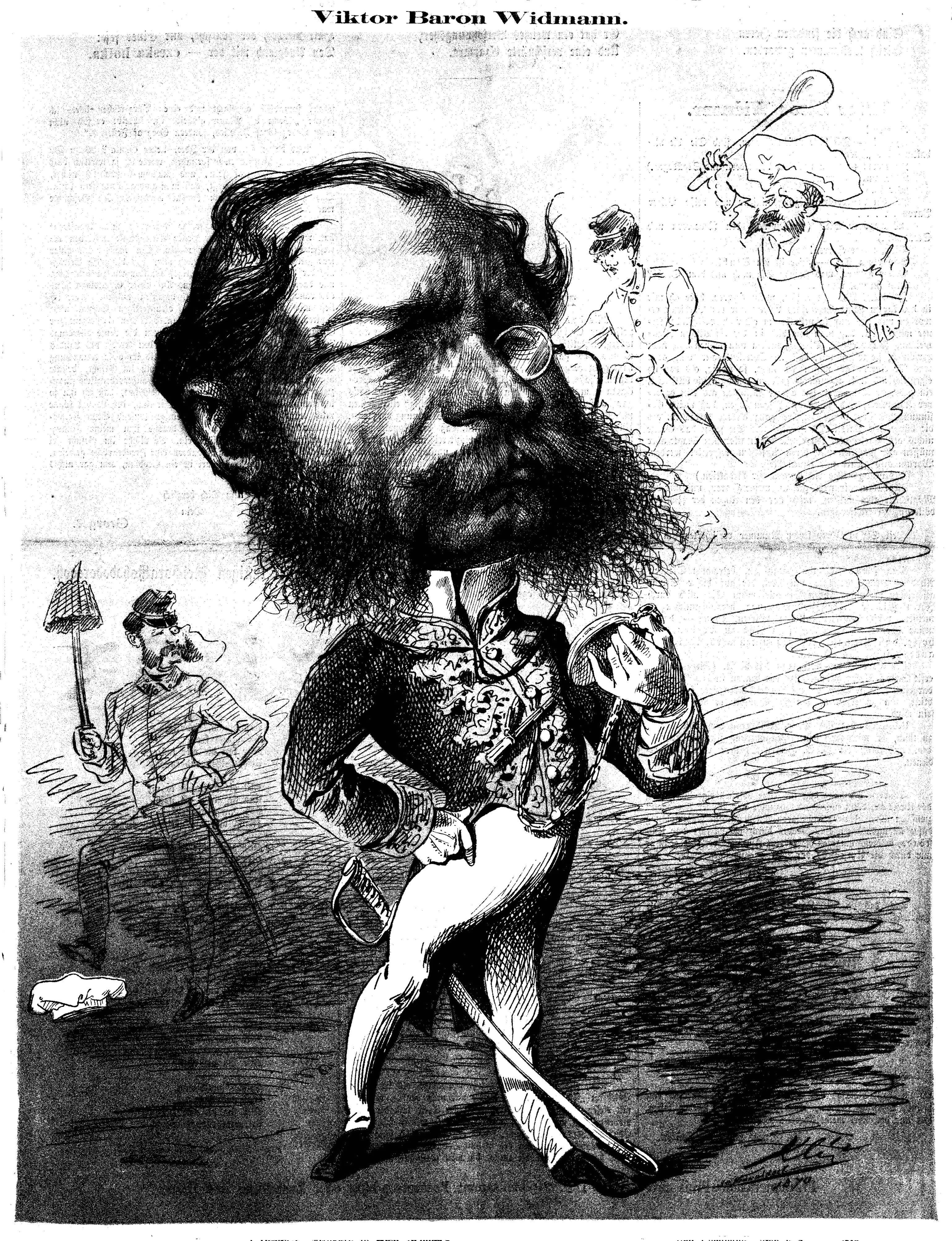 Cartoon of Victor Widmann-Sedlnitzky (1836-1886), captioned as Viktor Baron Widmann, the newly appointed defence minister of Austria.